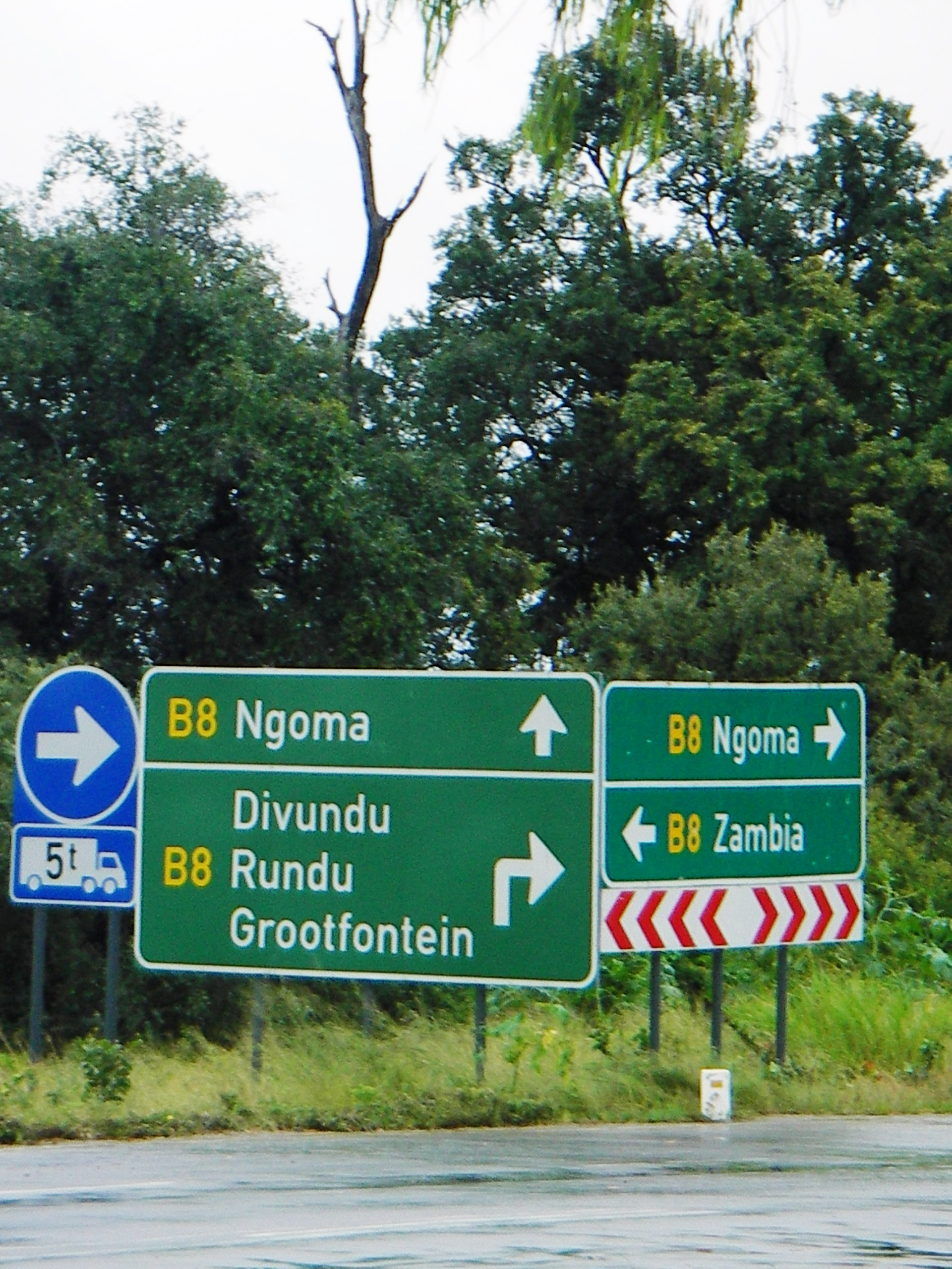 National Road B8 in Caprivi